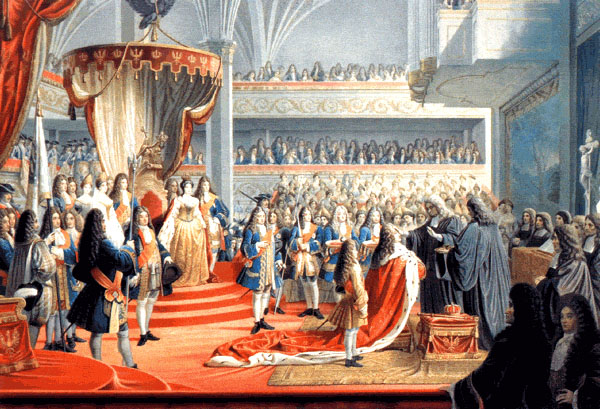 Coronation of Elector Friedrich I as King Frederick I in Prussia, Königsberg, 1701. Here he is anointed by two Protestant bishops (Bernhard von Sanden and Benjamin Ursinus) after the coronation.